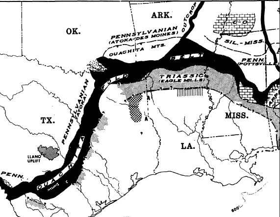 Ouachita Orogeny geologic map